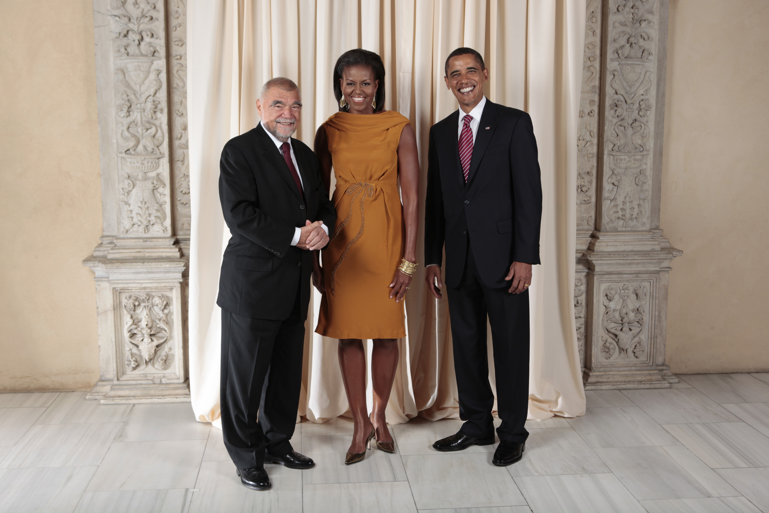 President Barack Obama and First Lady Michelle Obama pose for a photo during a reception at the Metropolitan Museum in New York with Stjepan Mesić, president of Croatia.